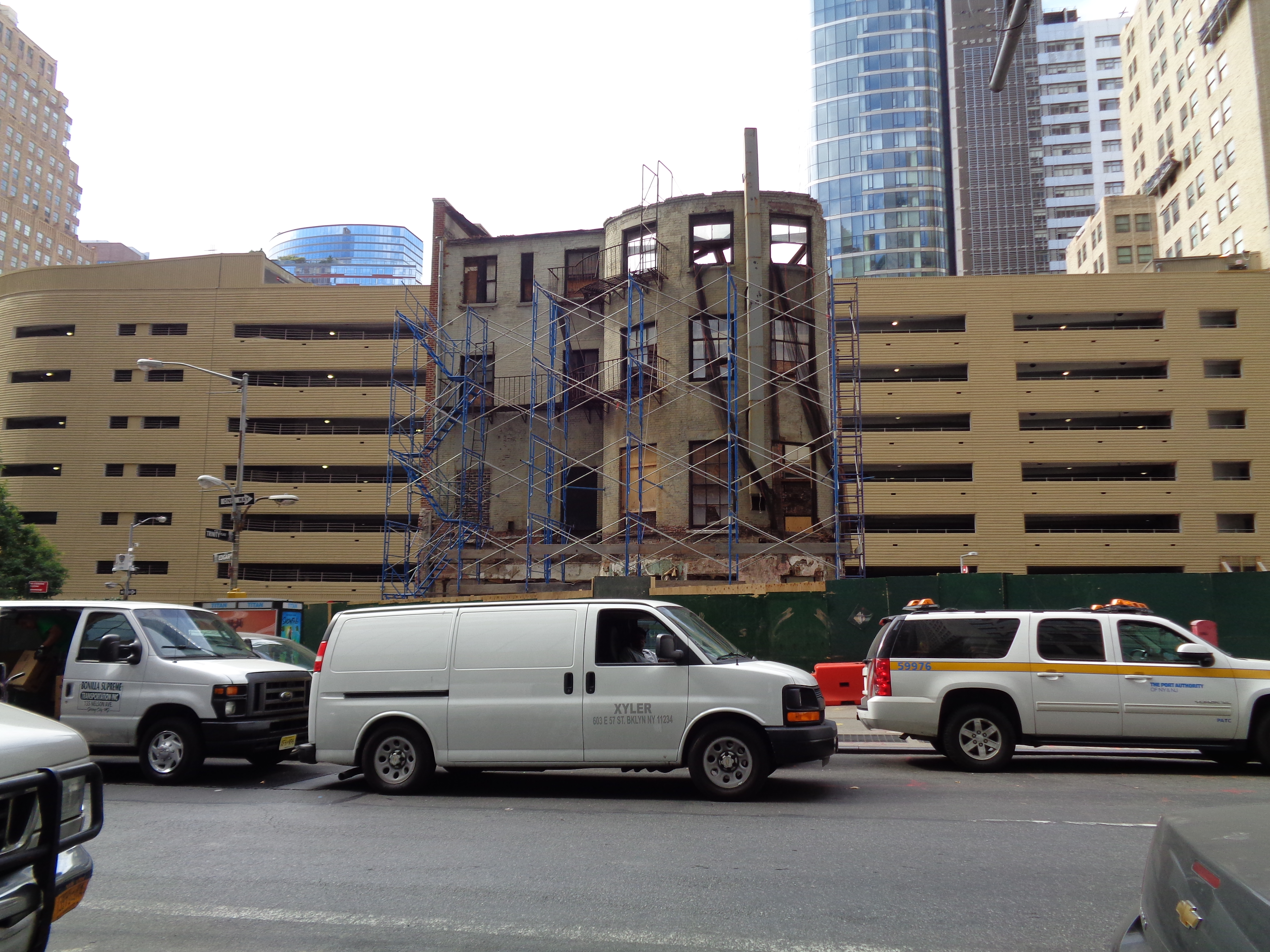 A building under demolition at Trinity Place and Edgar Street in the Financial District, Manhattan. This site has been under scaffolding for several months. Edit: This building is/was 42 Trinity Place, a former Syms Corporation clothing store. It and the other buildings on the block (32-42 Trinity Place) are being demolished to make way for 77 Greenwich Street, a 500-foot-tall (42 story) glass building. Edit again: This (I believe) is 67 Greenwich Street or the Robert and Anne Dickey House, built in 1811 (or 1810 or 1809) and is a NYCLP landmark since 2005. It is set to be restored (or remodeled) as part of the project. The site to the right (north) is the former Syms store.